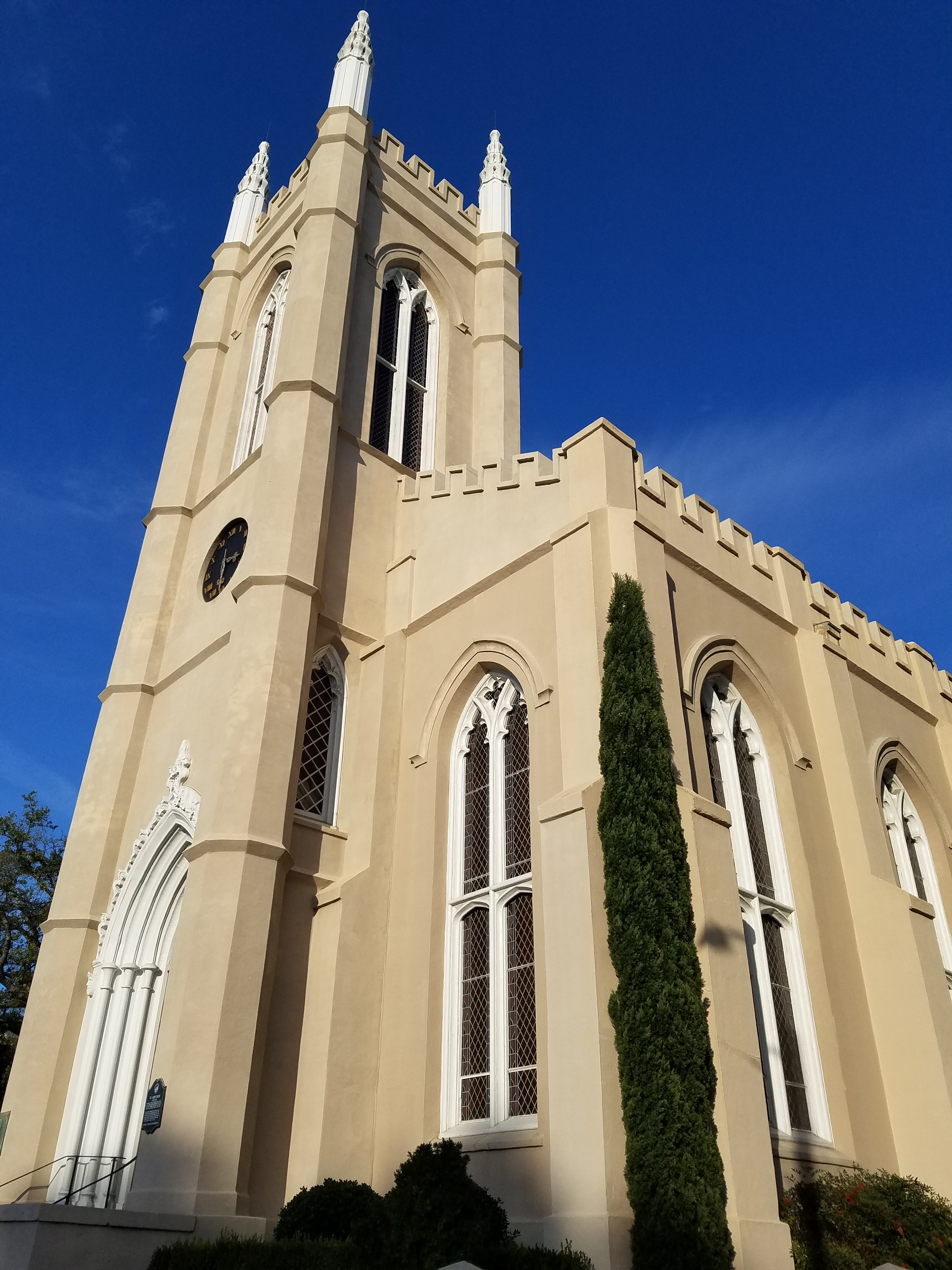 St. James Episcopal Church is a historic Episcopal church in the historic district of Wilmington, North Carolina.